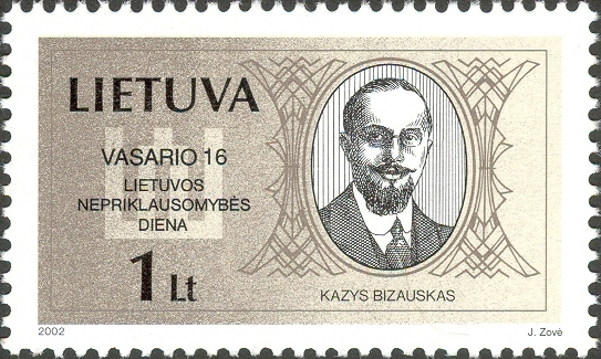 Stamps of Lithuania, 2002